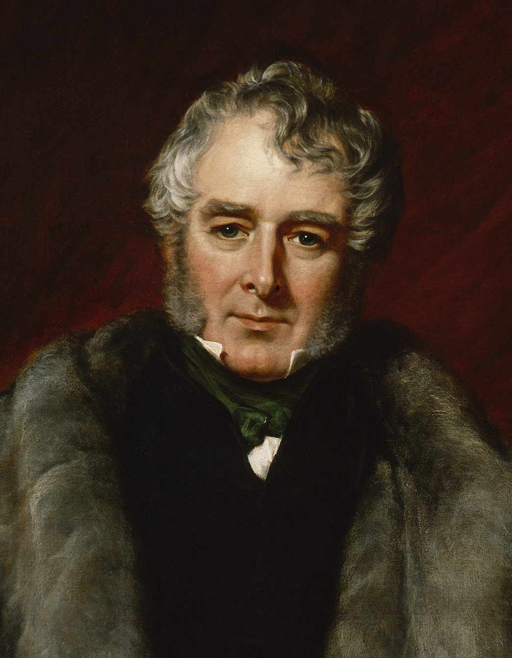 Portrait of William Lamb (1779–1848)